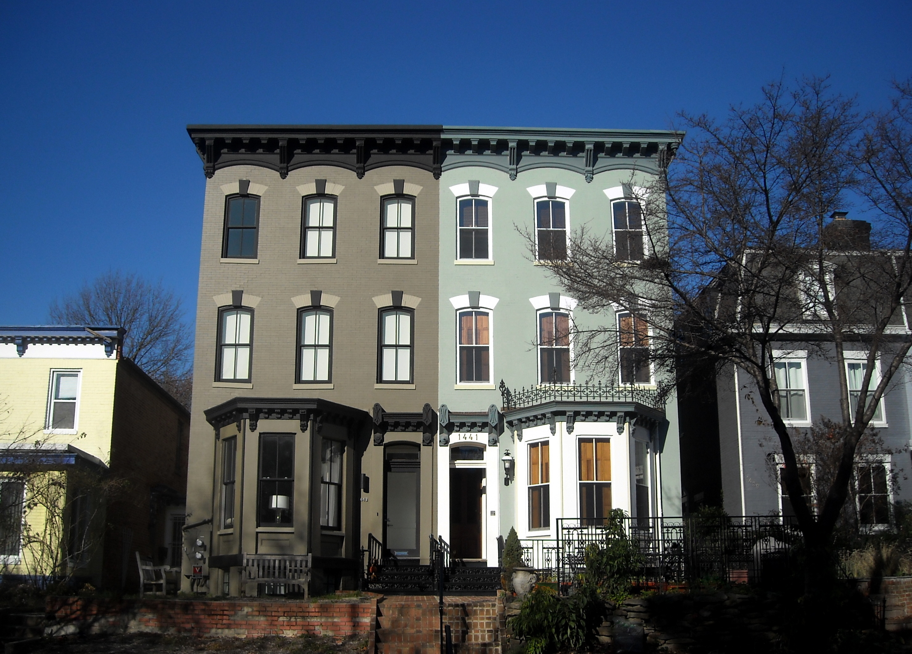 Row houses, located at 1441–1443 Q Street, N.W., in the Logan Circle neighborhood of Washington, D.C. Built in 1880, the Italianate-style homes are contributing properties to the Fourteenth Street Historic District, listed on the National Register of Historic Places in 1994. Previous occupants of 1441 Q Street, N.W., (right) include U.S. Representative Ernest Mark Pollard, attorney and Cosmos Club member David A. Chambers, writer David Chambers Mearns, and the National Motorcycle Retailers Association. Previous occupants of 1443 Q Street, N.W., (left) include U.S. Representative Edwin William Keightley, physicians Mary L. Wooster and Walter Mallery Wooster, botanist Elmer Drew Merrill, botanist Frank Lamson-Scribner, chemist Henry Newlin Stokes, the Oriental Esoteric Society of Washington, D.C.'s Oriental Esoteric Center, and minister James Clarence Olden.